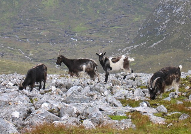 Wild Goats. Looking down into Coir' an Leth-choin